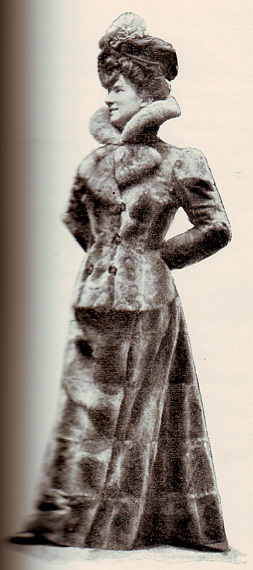 Suslik (ground squirrel) fur coat. [walking suit, promenade suit, traveling suit]